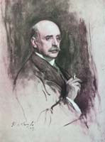 Portrait of Charles Holme (1848–1923) by Philip Alexius de László (1869–1937), 1908; first published in The Studio 1911